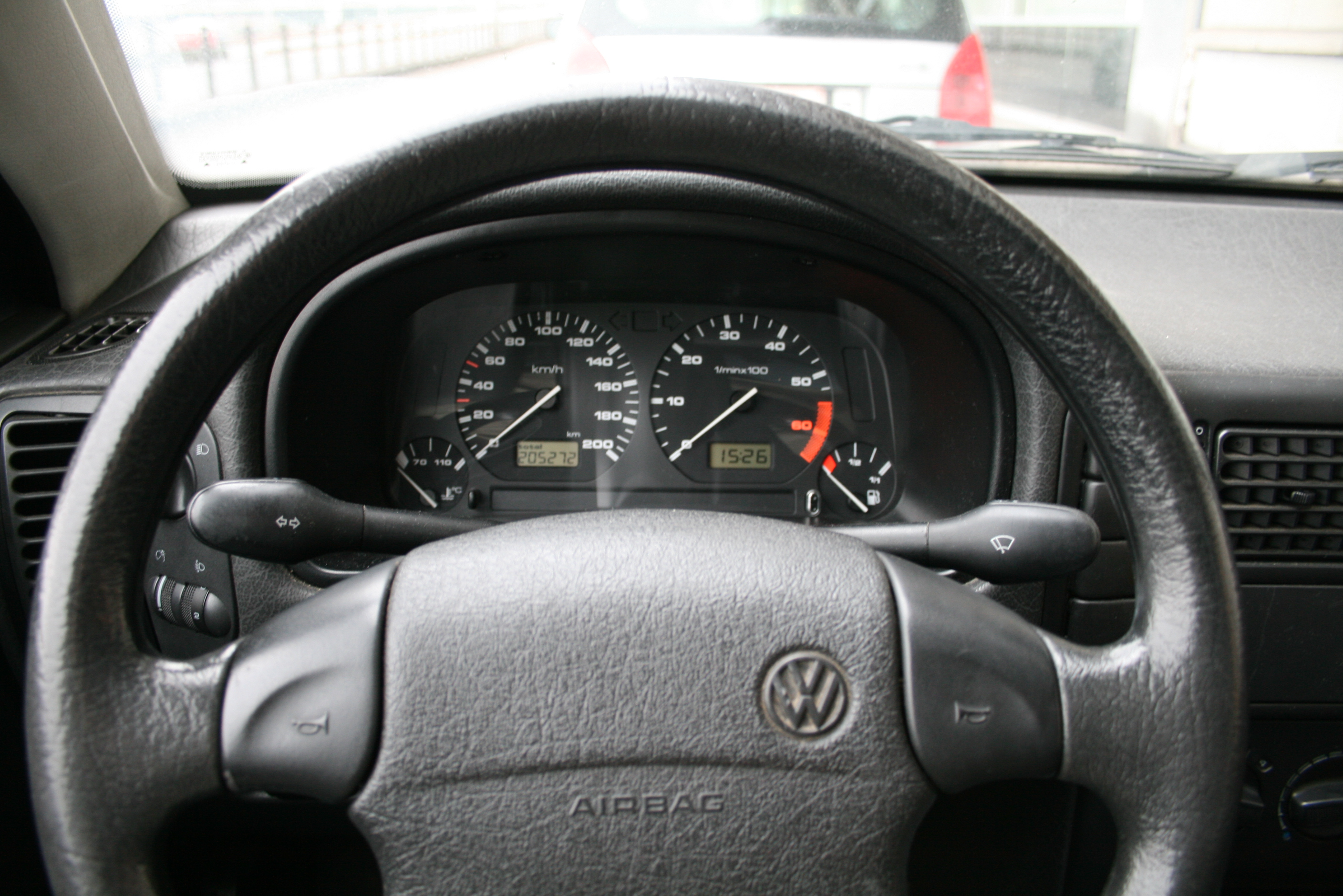 Dashboard of an "old" VW polo berline, a replacement car for my crashed car. Driving without power-steering was fun. In that car, you could really feel you were driving at 70km/h :-)